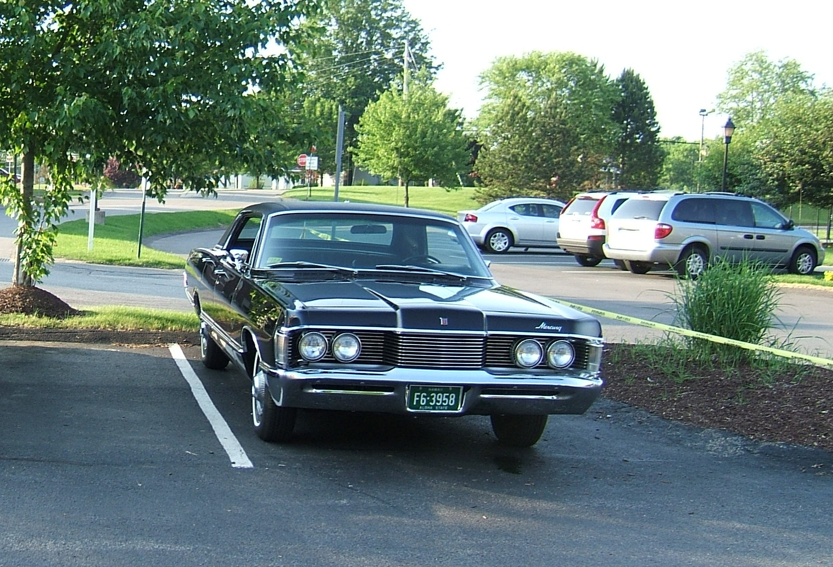 This triple-black 1968 Mercury Park Lane Brougham 4-door hardtop is owned by a collector and Hawaii Five-O fan in Mars, Pennsylvania, USA.